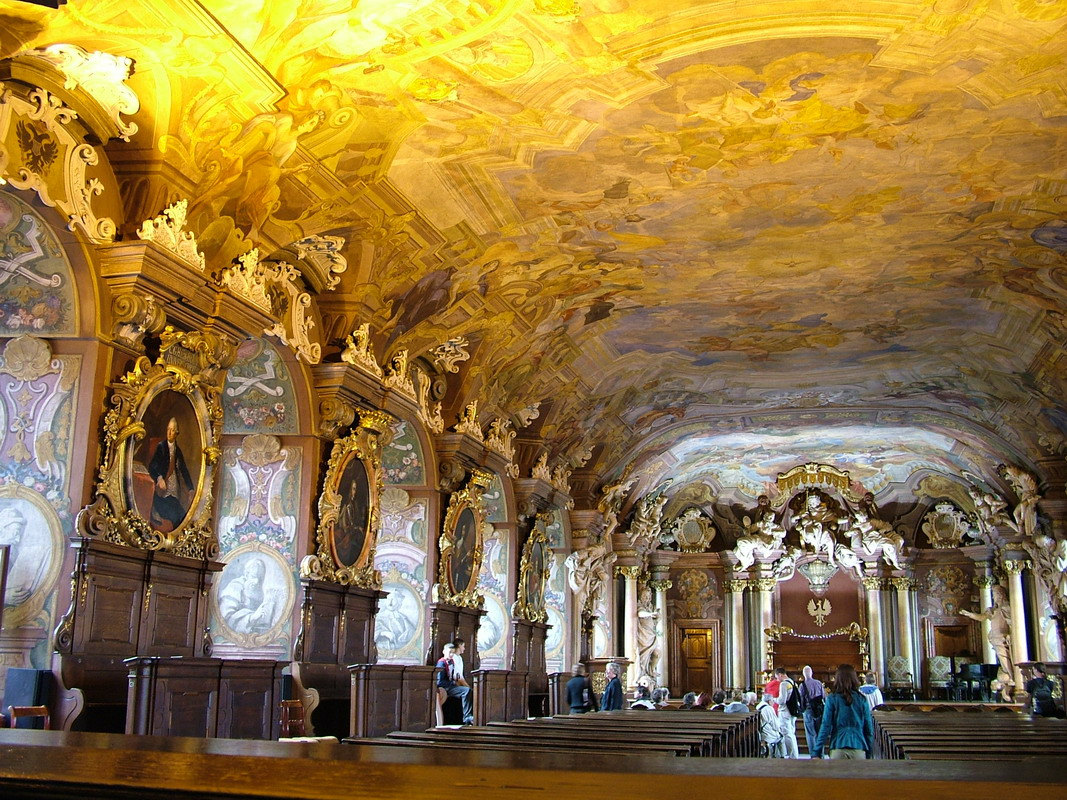 Wroclaw University - Aula Leopoldina